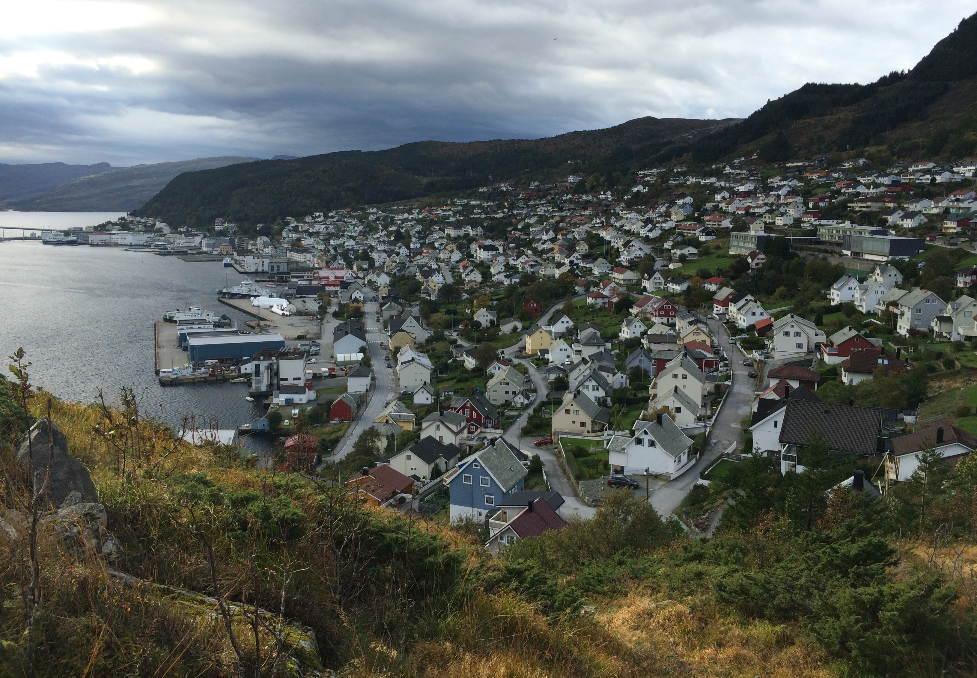 Måløy town in Vågsøy municipality in Sogn og Fjordane county, Norway.